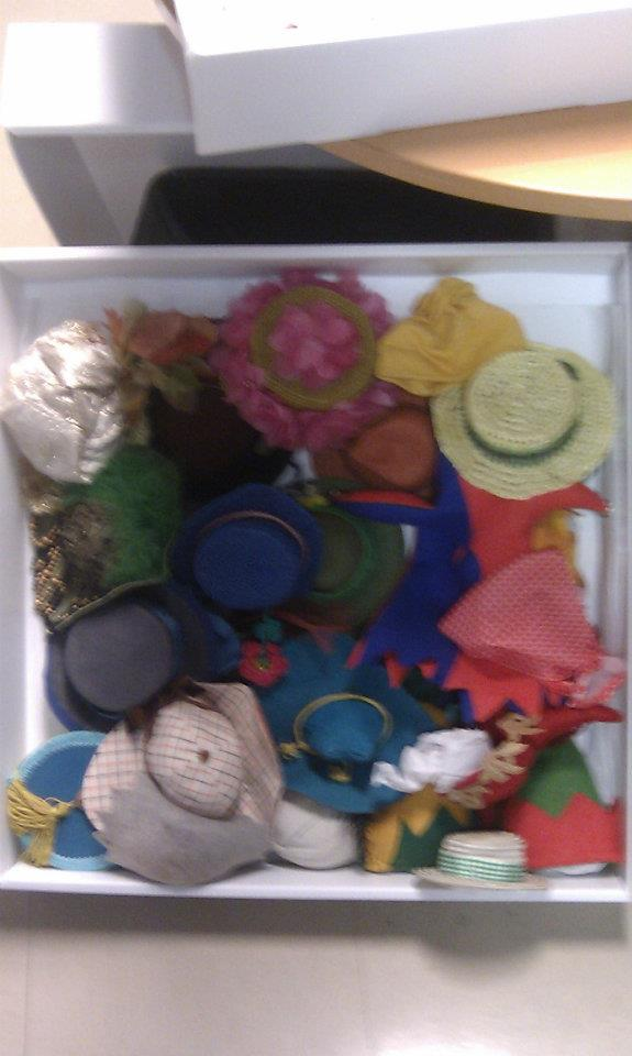 Des chapeaux de Bobinette.